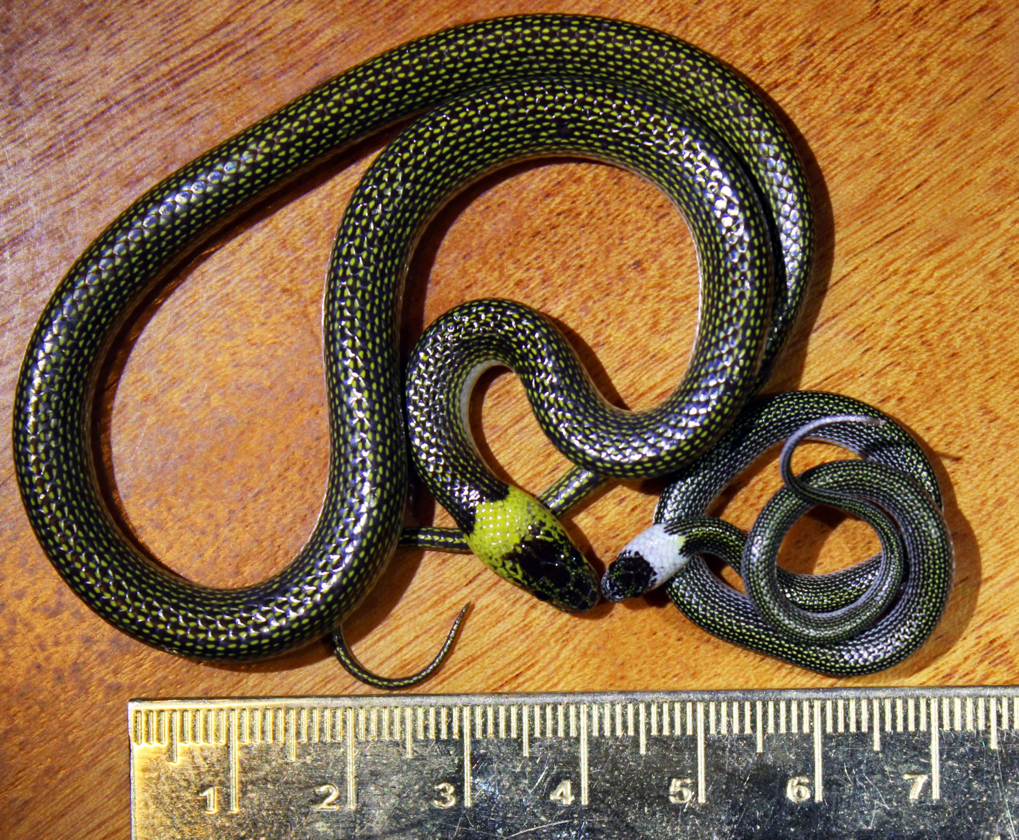 Adult and juvenile specimens of Lycodon odishii sp. nov.